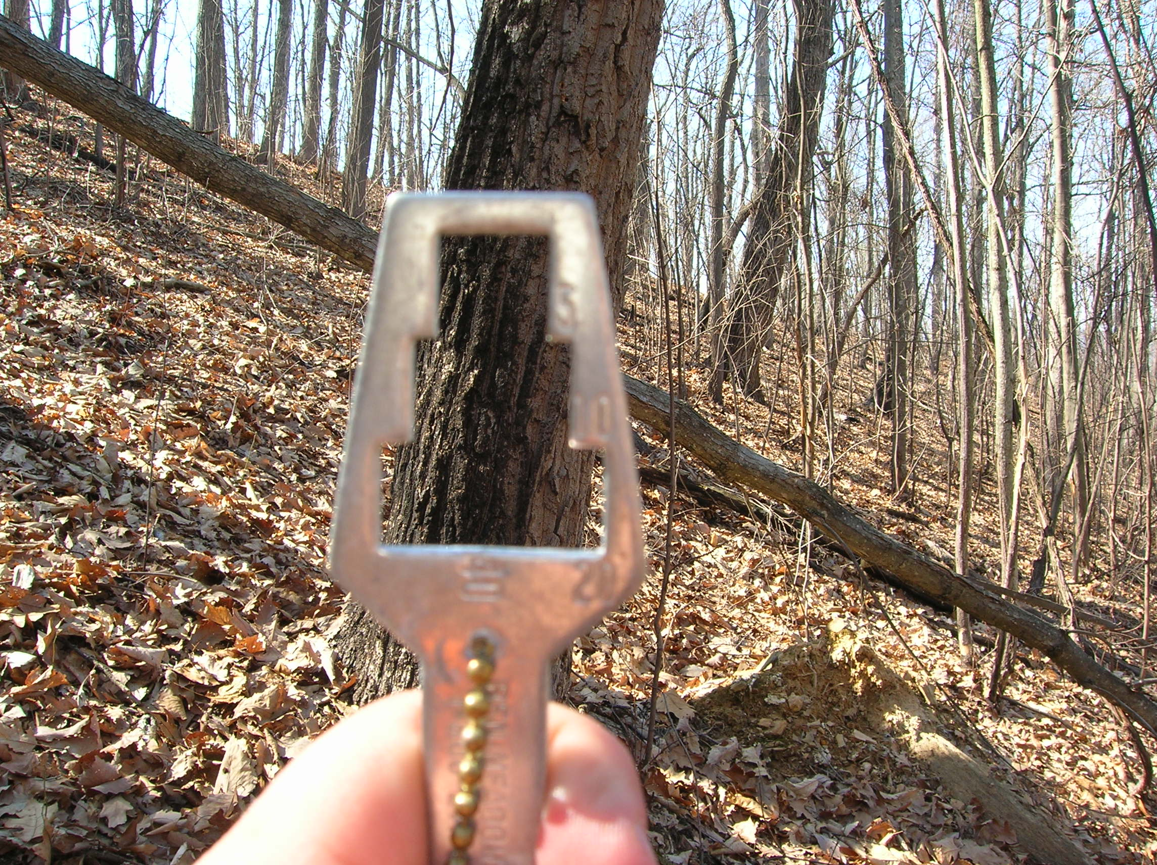 A angle gauge is a tool for measuring of basal areas of trees.